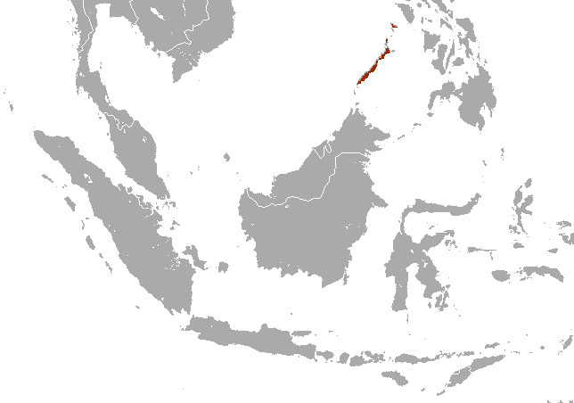 Palawan Stink Badger (Mydaus marchei) range, with national borders added